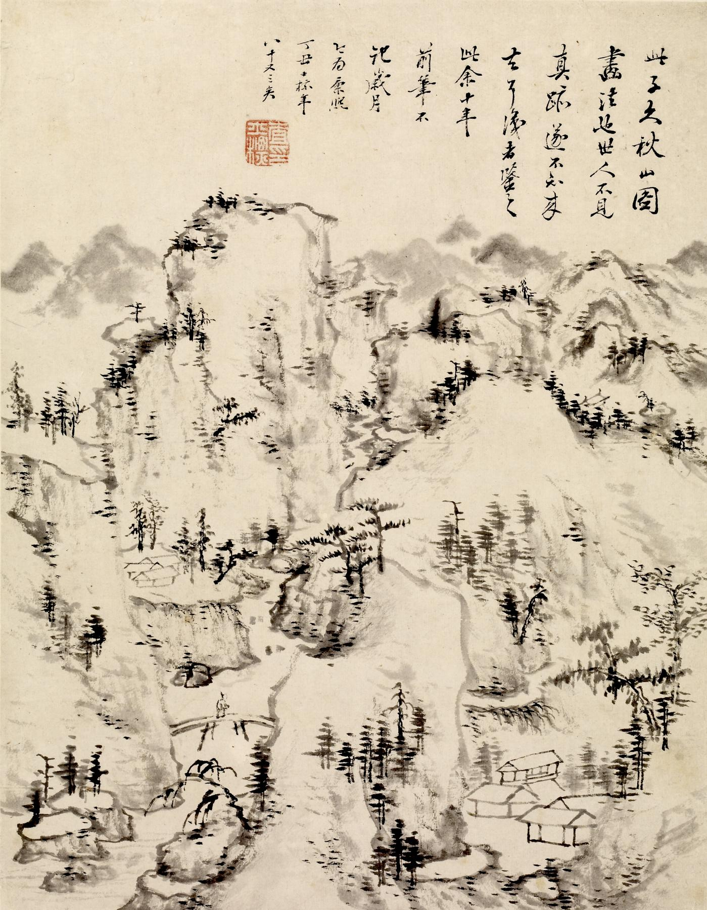 Inscribed by Zha Shibiao [Cha Shih-piao]: "This is in the style of Huang Gongwang [Huang Kung-wang]'s 'Autumn Mountain.' Because the original no longer exists, people are not aware of its source, as the people not aware should realize. "This is a painting made by me ten years ago. I did not put down the year. Now I put it down for reference. 1697, Shibiao [Shih-piao] at the age of 83." Huang Gongwang [Huang Kung-wang] (1269-1354) was a revered painter of the Yuan [Yüan] dynasty.